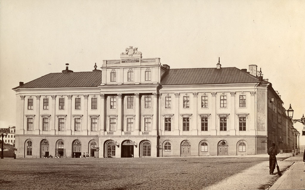 "The Hereditary Prince's Palace" (also called the Palace of Sofia Albertina) at Gustav Adolf Square in Stockholm. The palace was built in 1783-1794. Today it's used as a Swedish government building, housing the Ministry for Foreign Affairs. Format: Albumen print